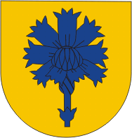 Coat of arms of Keila, Estonia